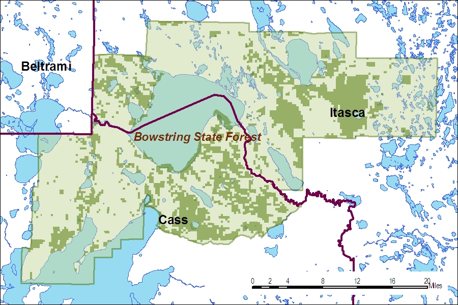 Map of Bowstring State Forest, showing boundary and state forest lands (dark green).